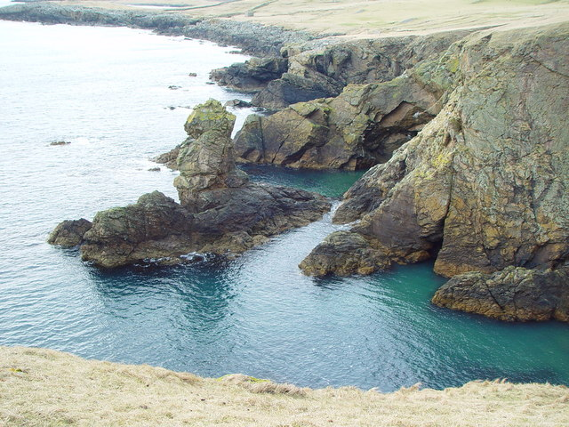 Clett Head, Whalsay, Shetland. Looking WNW from Clett Head, the 'geo' (inlet) in the foreground is where the island of Whalsay's rubbish used to be dumped.